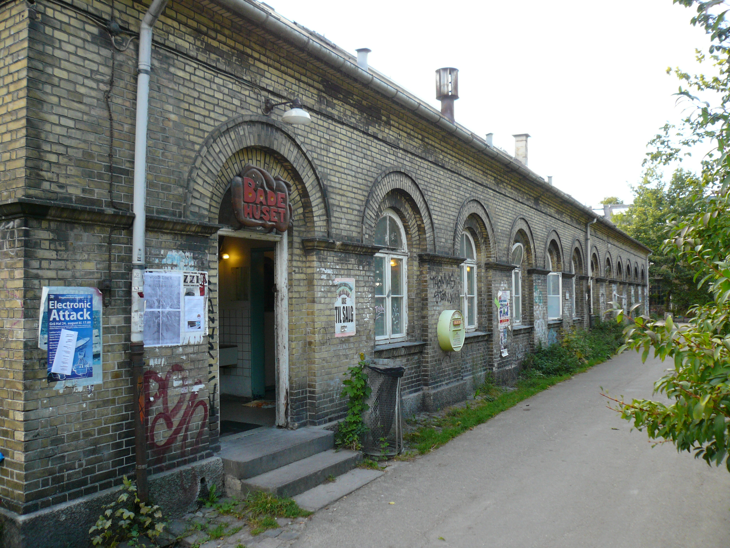 Bade Huset with Postbox in Christiania, Copenhagen